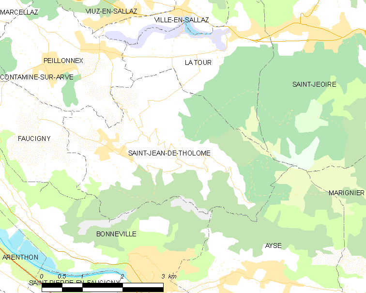 Map of French municipality Saint-Jean-de-Tholome